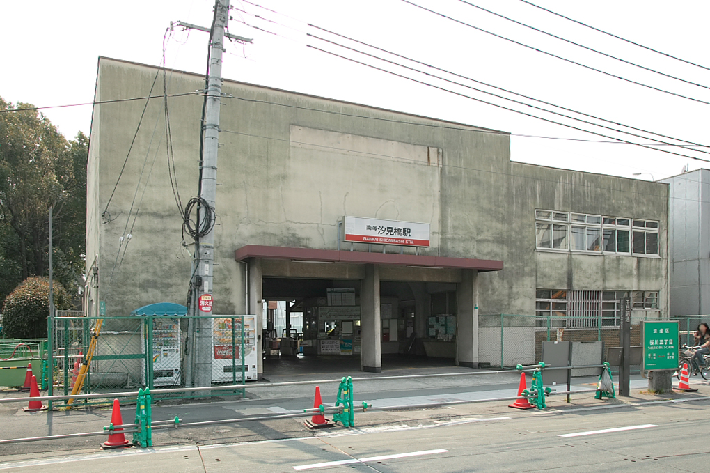 A front view of The Nankai Electric Railway Shiomibashi Station, Osaka Japan.